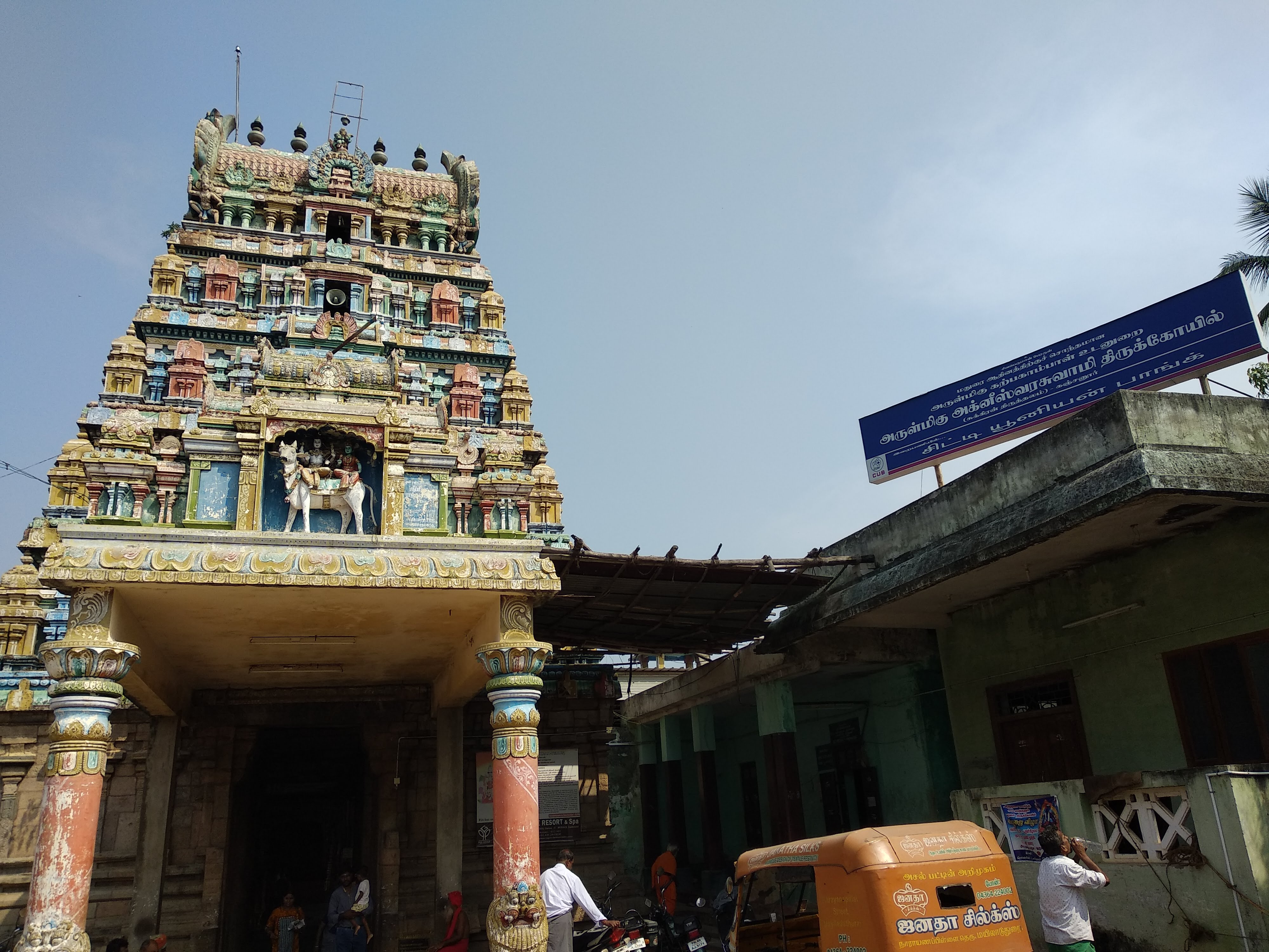 This temple is famous for the presiding deity Sukkiran. One of the Navagraha temples located near Kumbakonam.